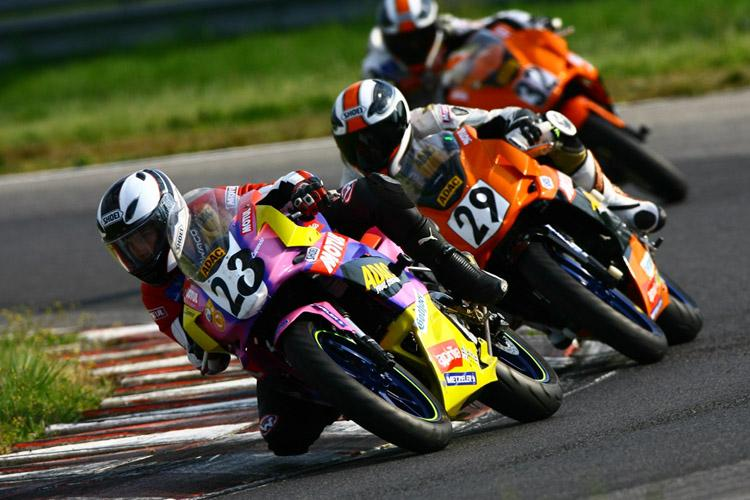 ADAC Junior Cup